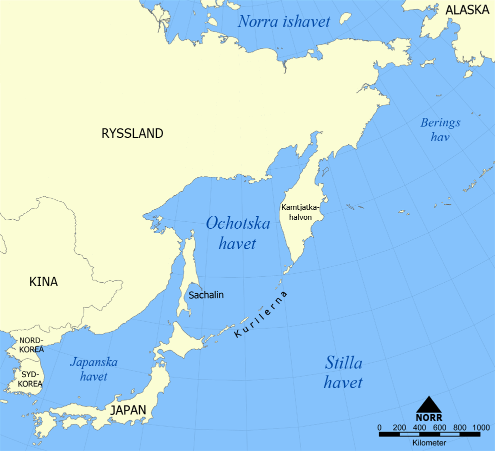 This is a map showing the location of the Sea of Okhotsk. The sea is bordered by Russia and Japan. Created by NormanEinstein, October 24, 2005.